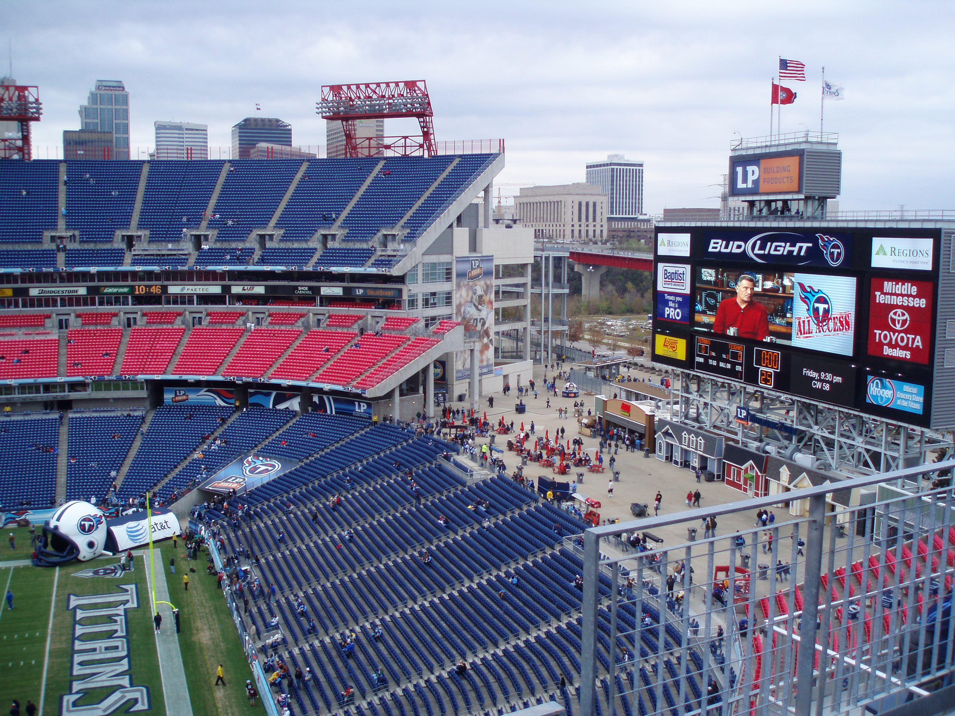 The city of Nashville as viewed from the upper deck of LP Field.